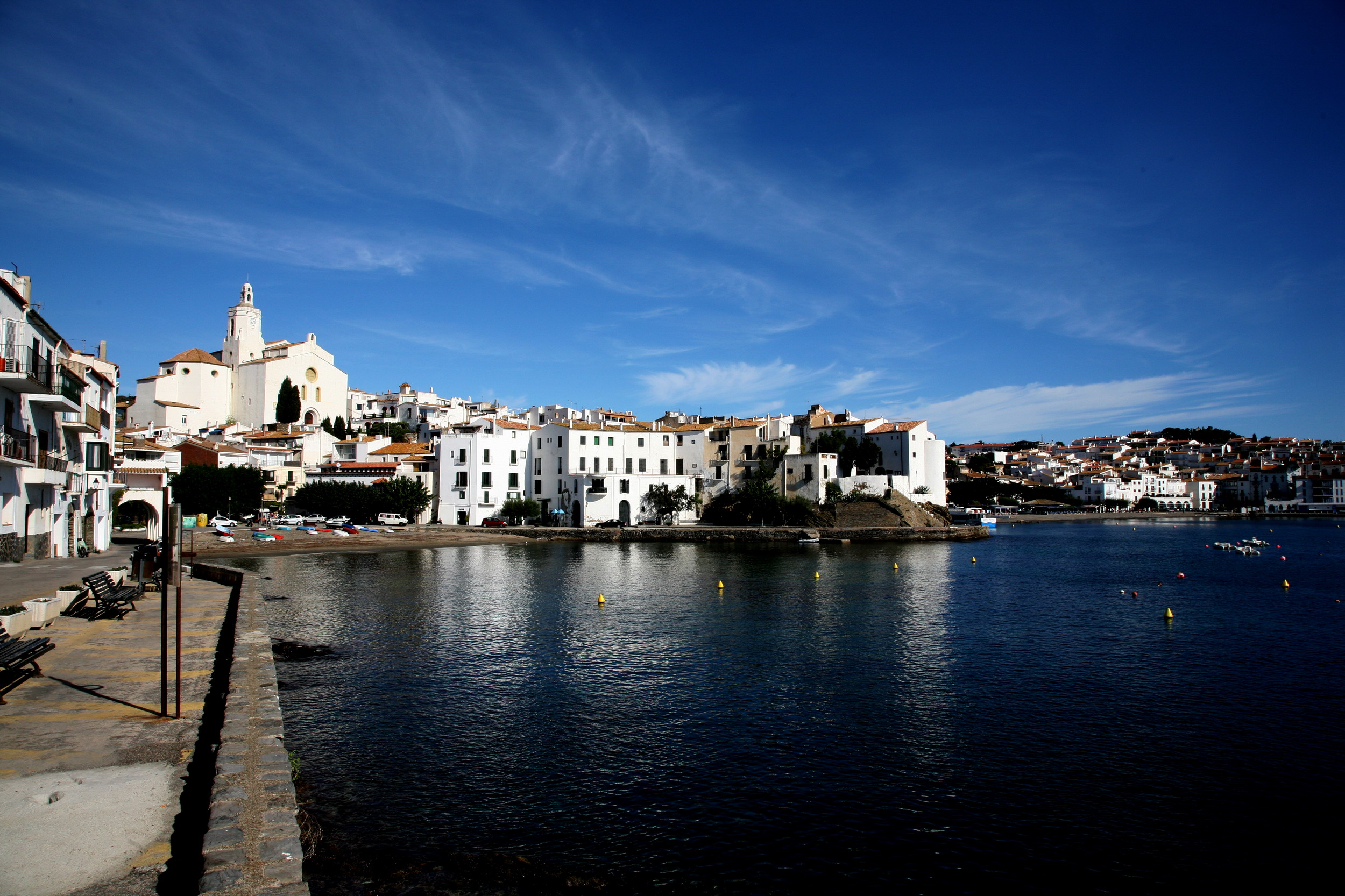 Cadaqués